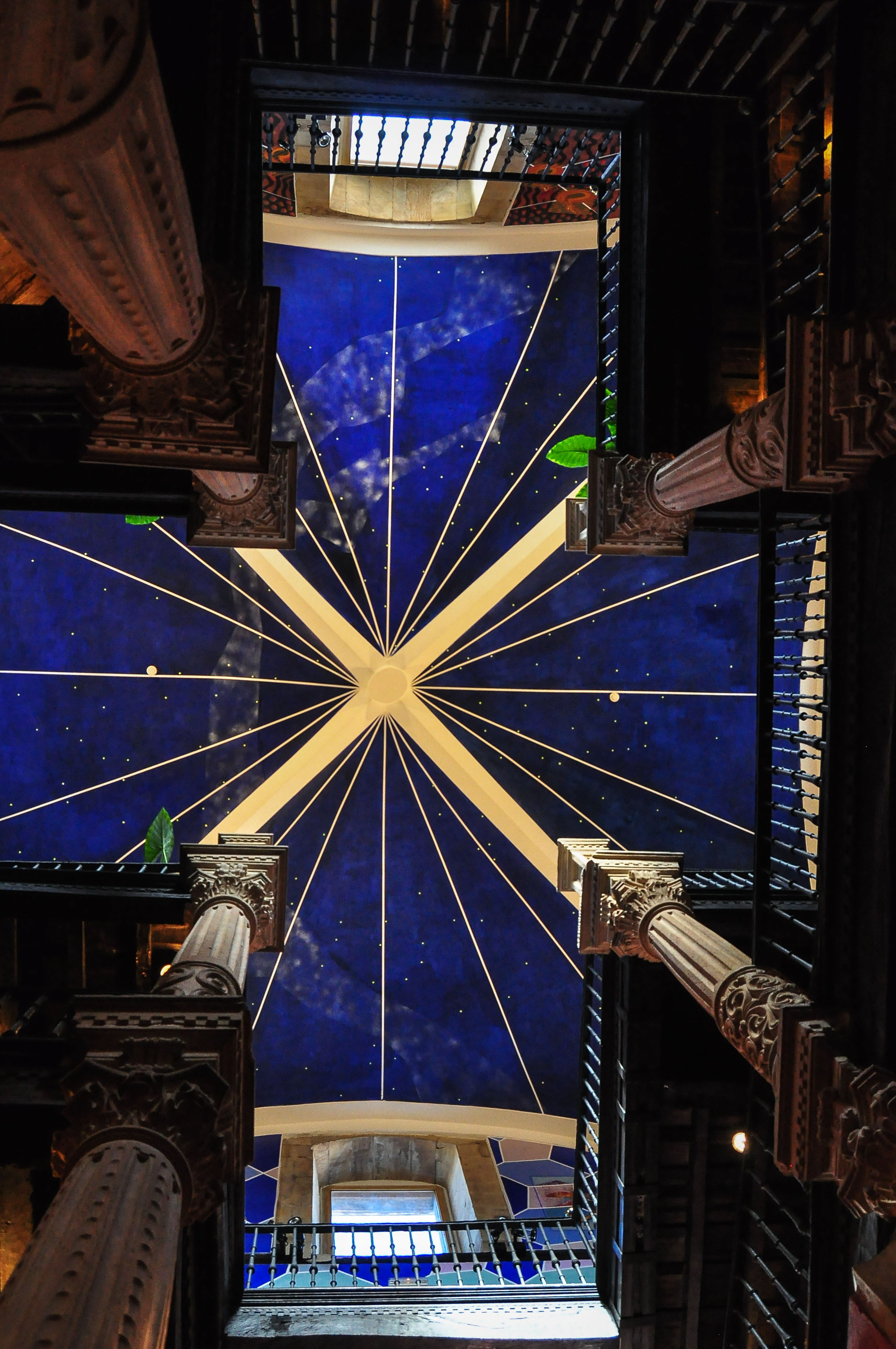 Palace of Soñanes, in Villacarriedo (Cantabria, Spain)